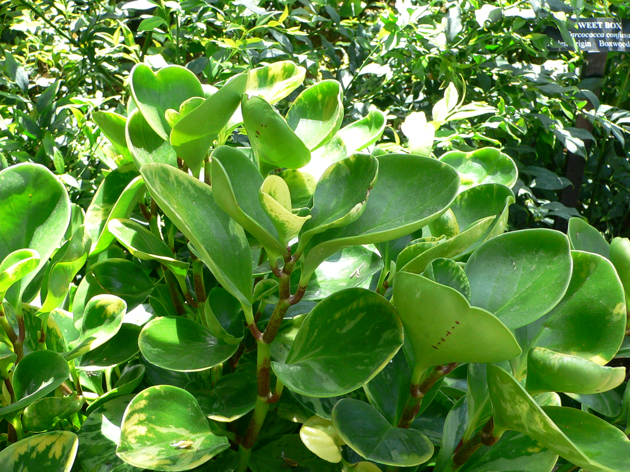 Pictures taken by myself at Longwood Gardens